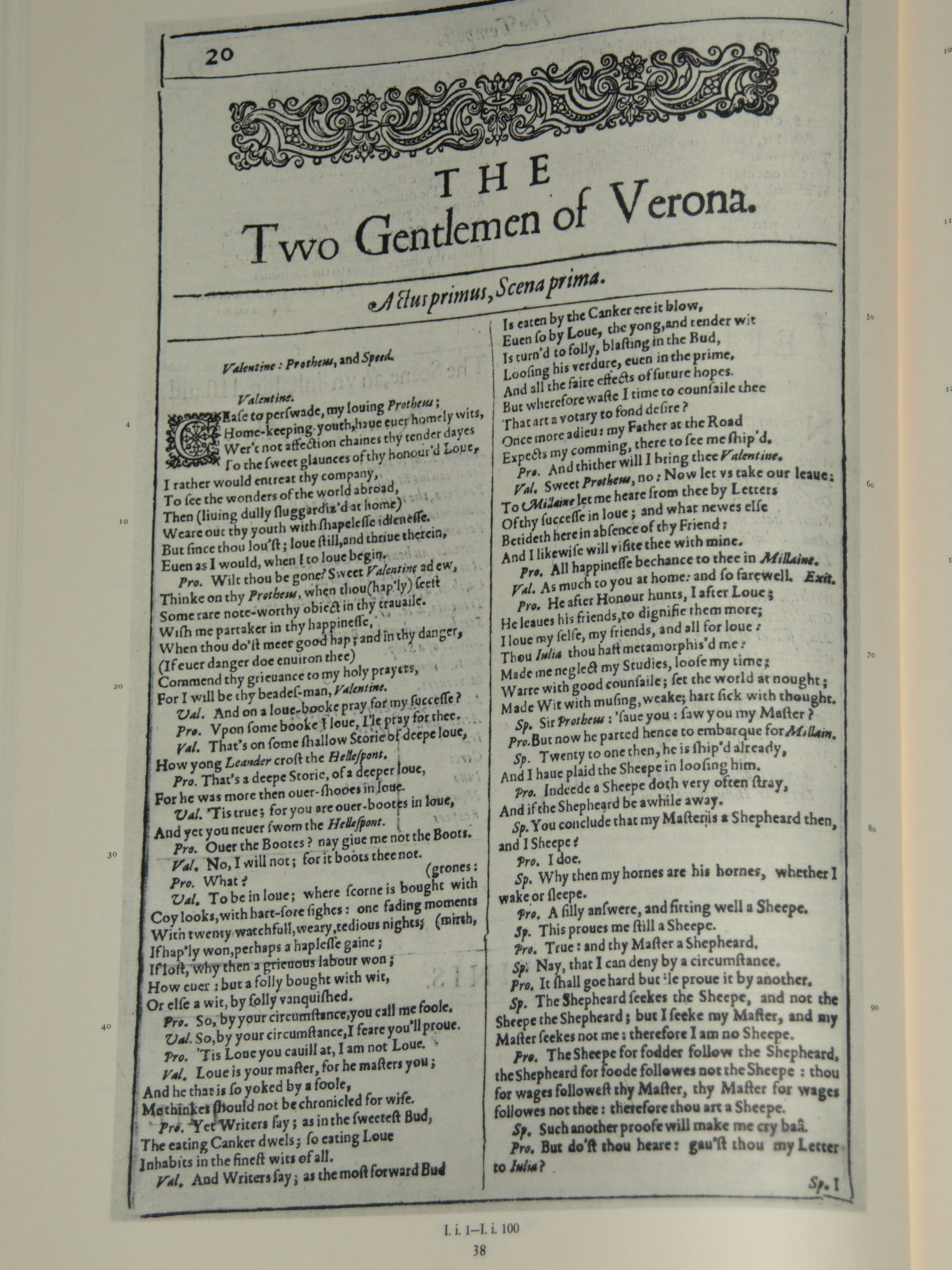 Photo of the first page of The Two Gentlemen of Verona from a facsimile edition of the First Folio of Shakespeare's plays, published in 1623